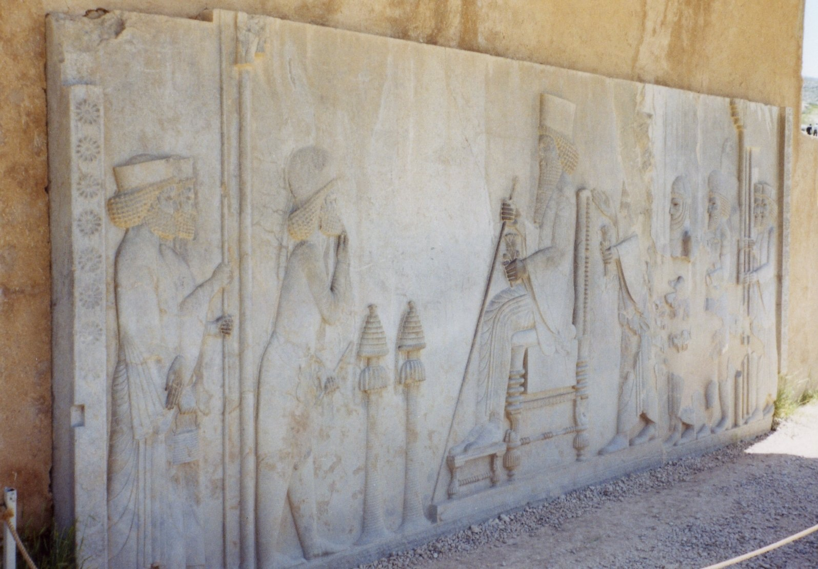 Picture taken by myself in Persepolis, Iran april 2006.